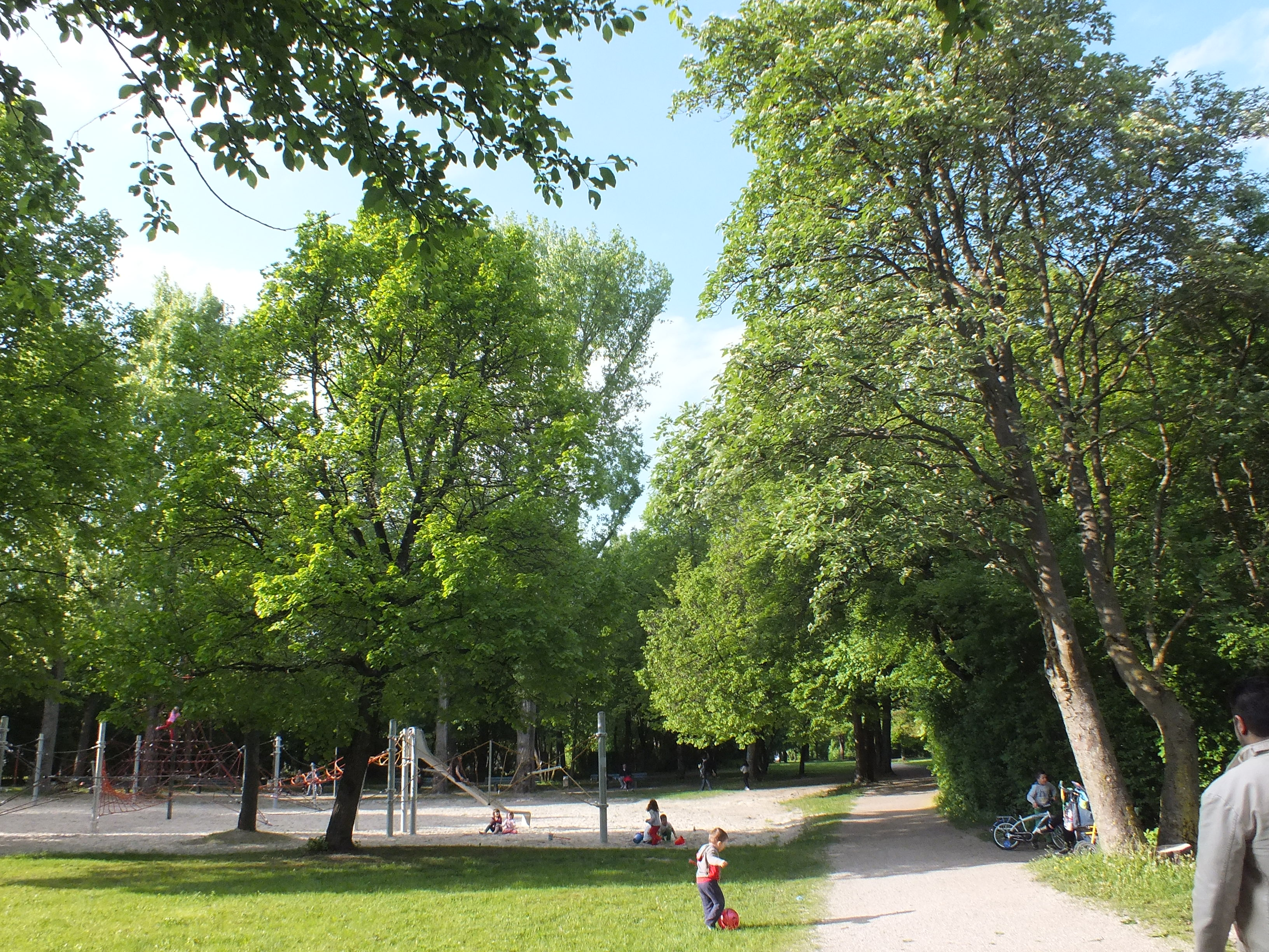 Park in Munich